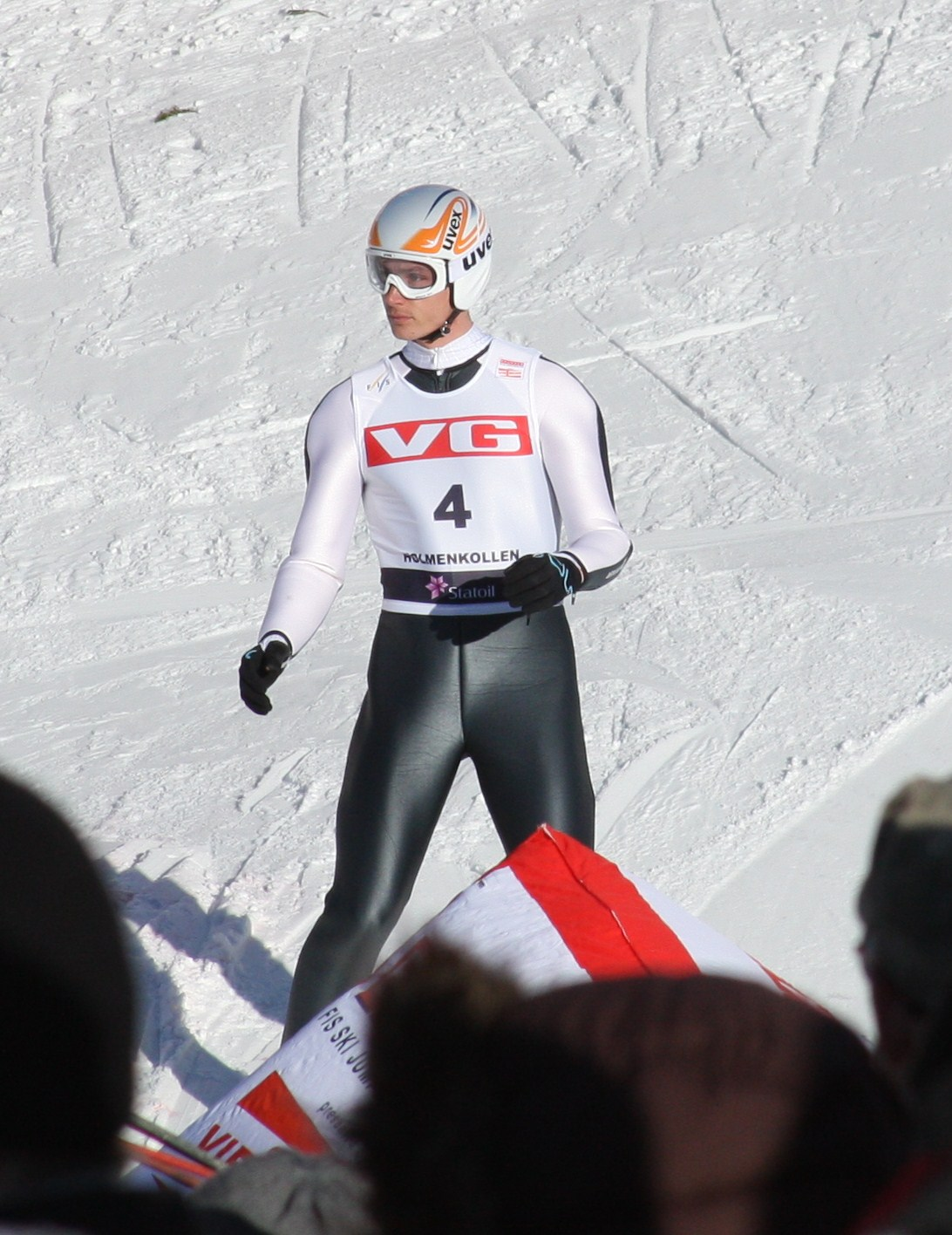 David Lazzaroni (FRA) in WC Oslo, Holmenkollen 14 march 2010